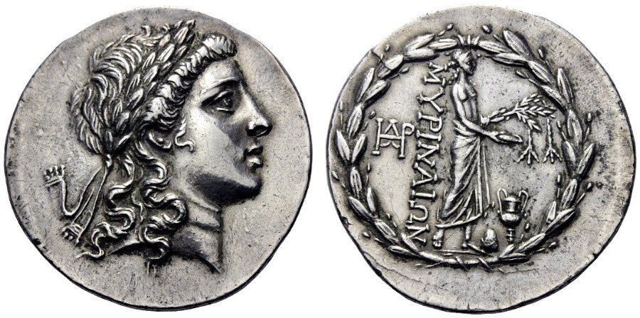 Aeolis, Myrina Tetradrachm circa 165-150, 32mm, AR 16.55 g. Laureate head of Apollo r. Rev. Apollo of Grynium standing r., holding phiale and laurel branch. All within laurel wreath. Sacks 71a (this coin).